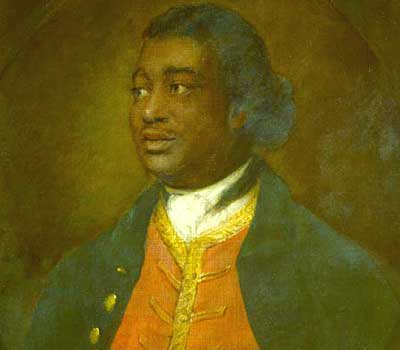 Ignatius Sancho (c1729-1780)